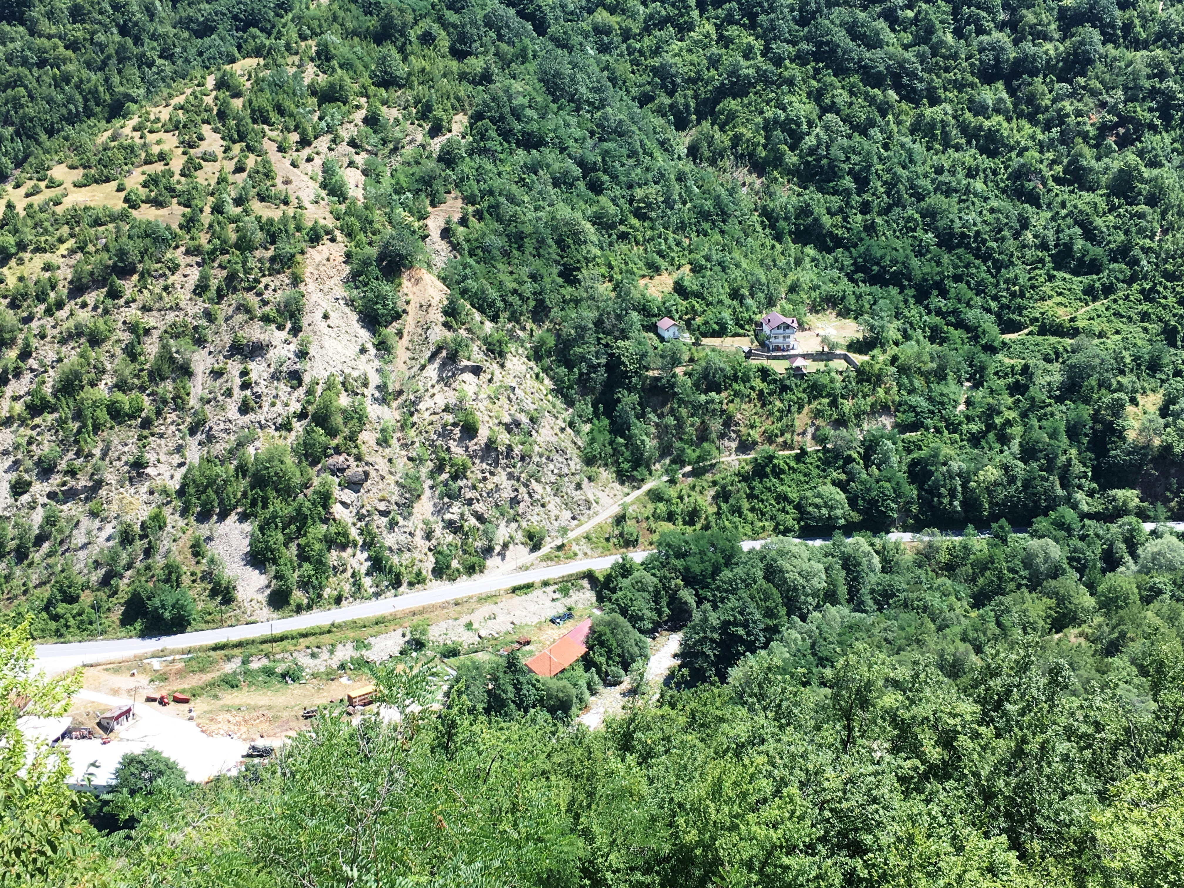 View of the village of Boletin with its surrounding area